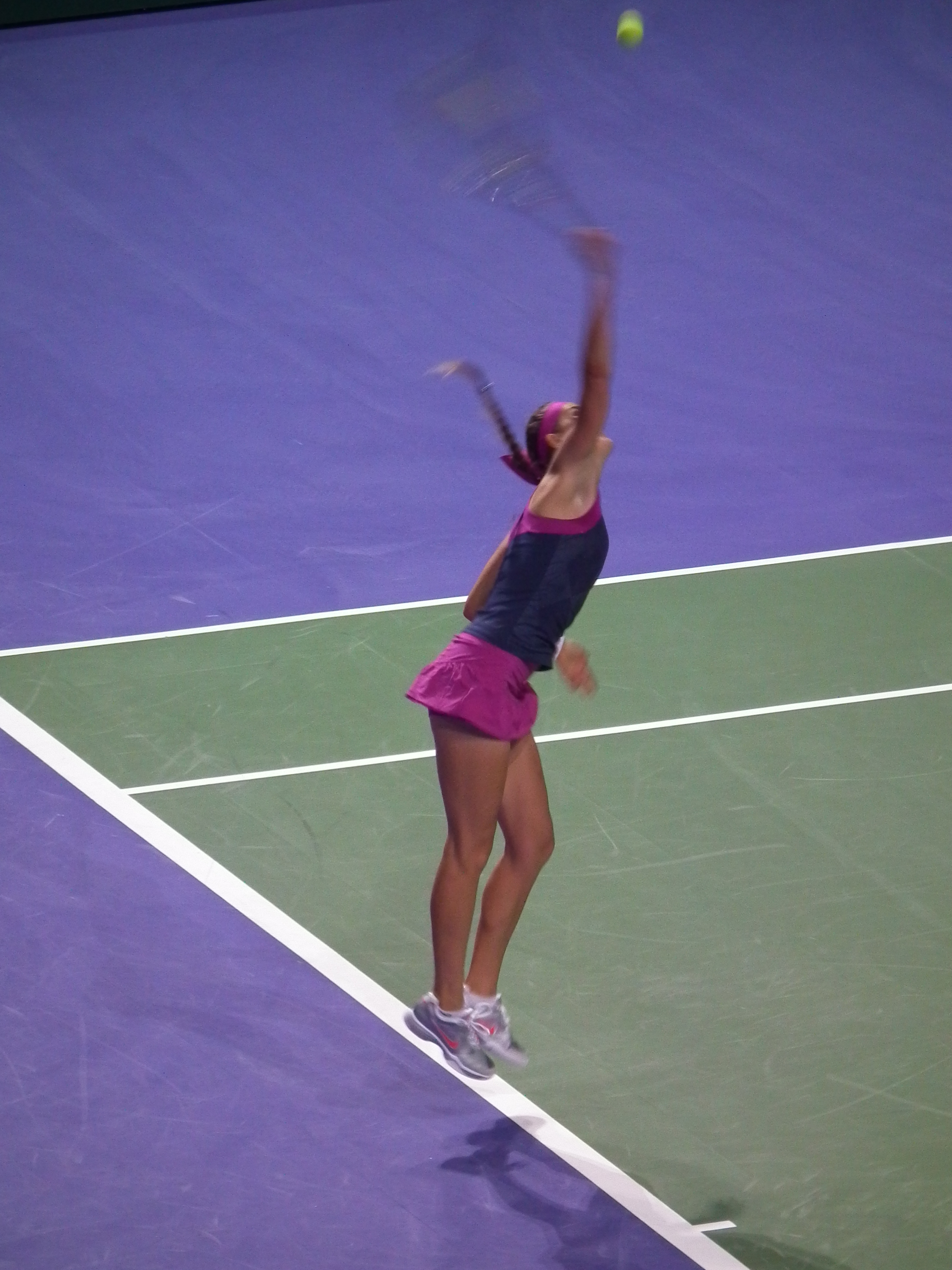 Victoria Azarenka at WTA Istanbul 2011